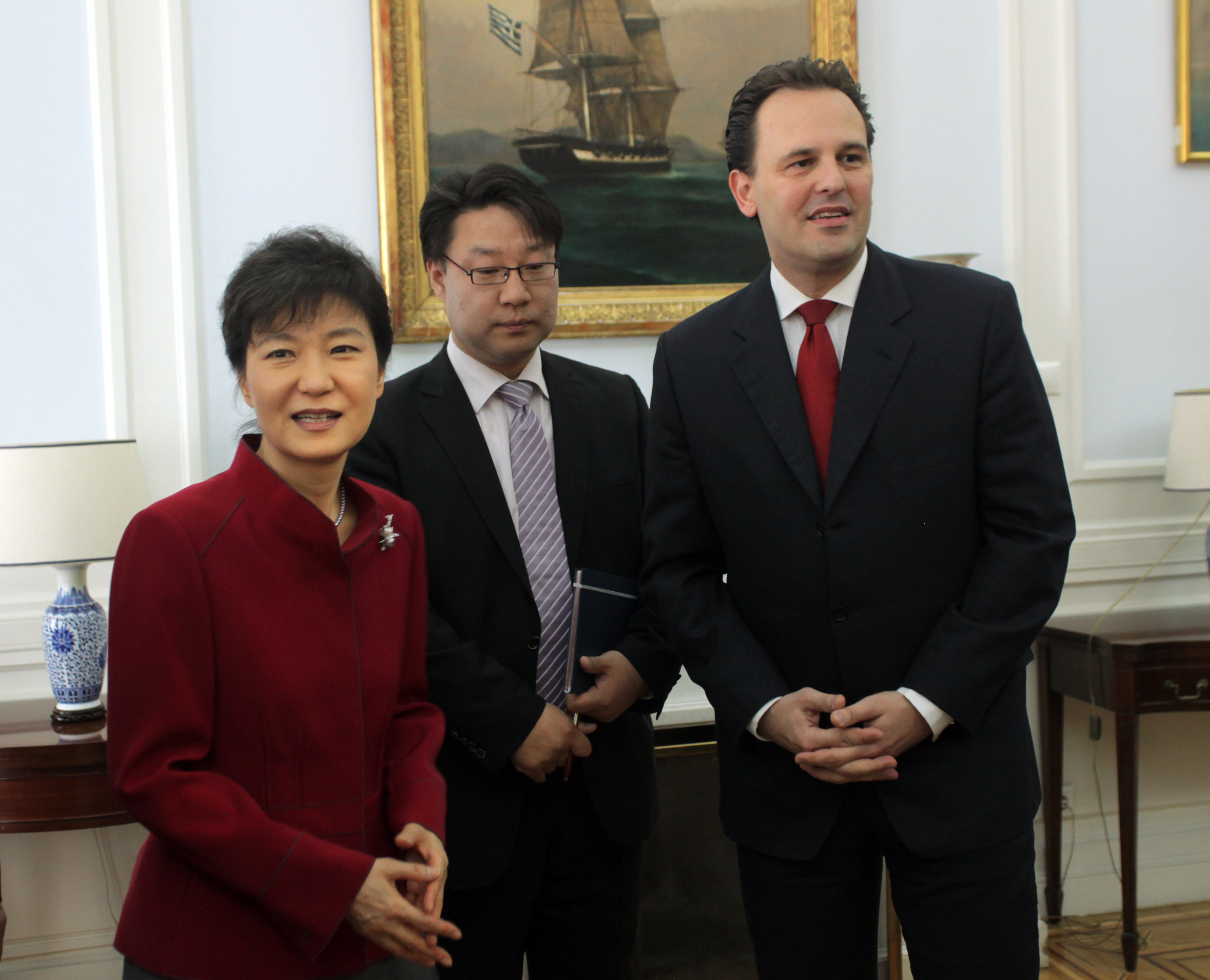 Foreign Minister Dimitris Droutsas met at the Foreign Ministry on Wednesday, 4 May 2011, with Ms. Geun Hye Park, the Personal Envoy of the President of South Korea.